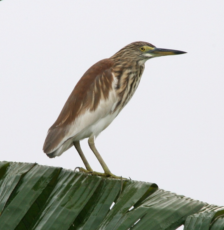 A Chinese Pond-Heron (Ardeola bacchus)